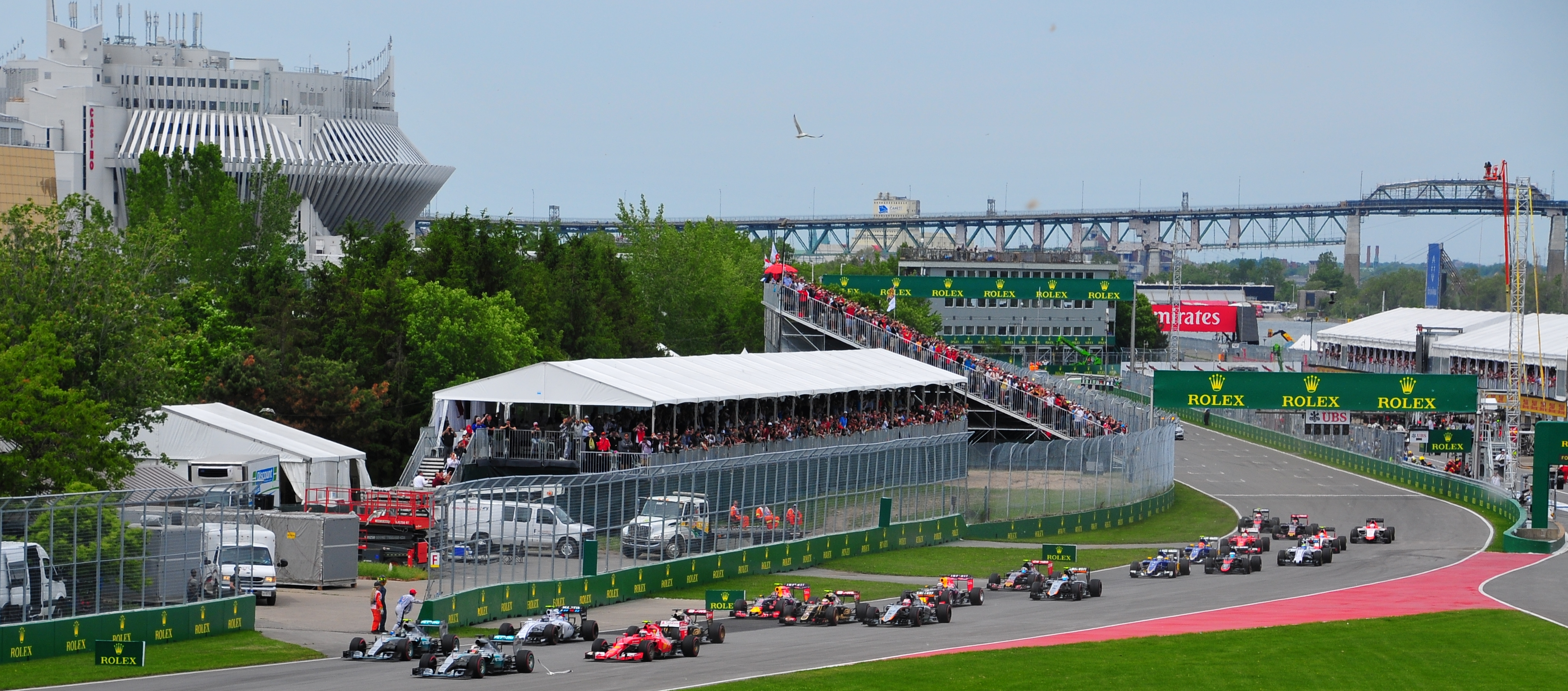 The start of the 2015 Canadian Grand Prix